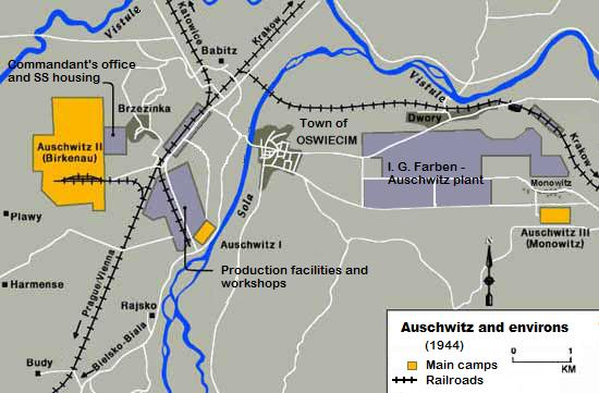 Map of Auschwitz Concentration Camp and environs, 1944